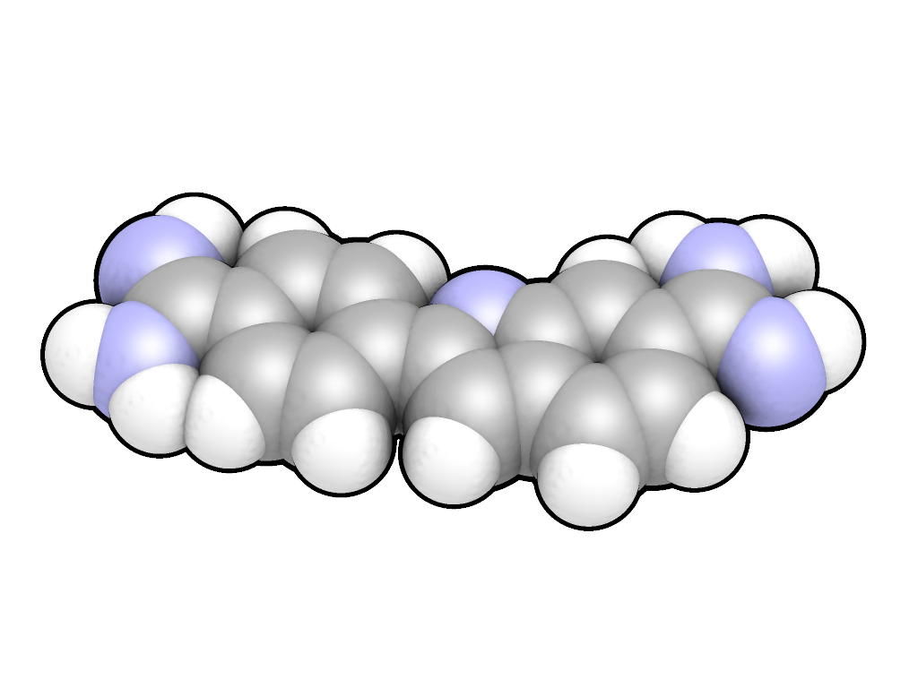 Space fill model of DAPI. From PDB 1D30, rendered in Qutemol.